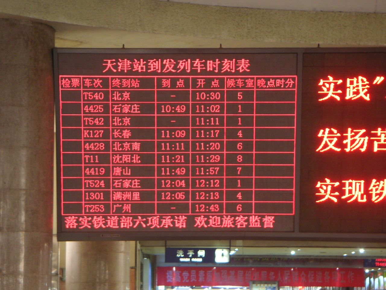 Tianjin Railway Station / Which train did we want to catch? 天津站